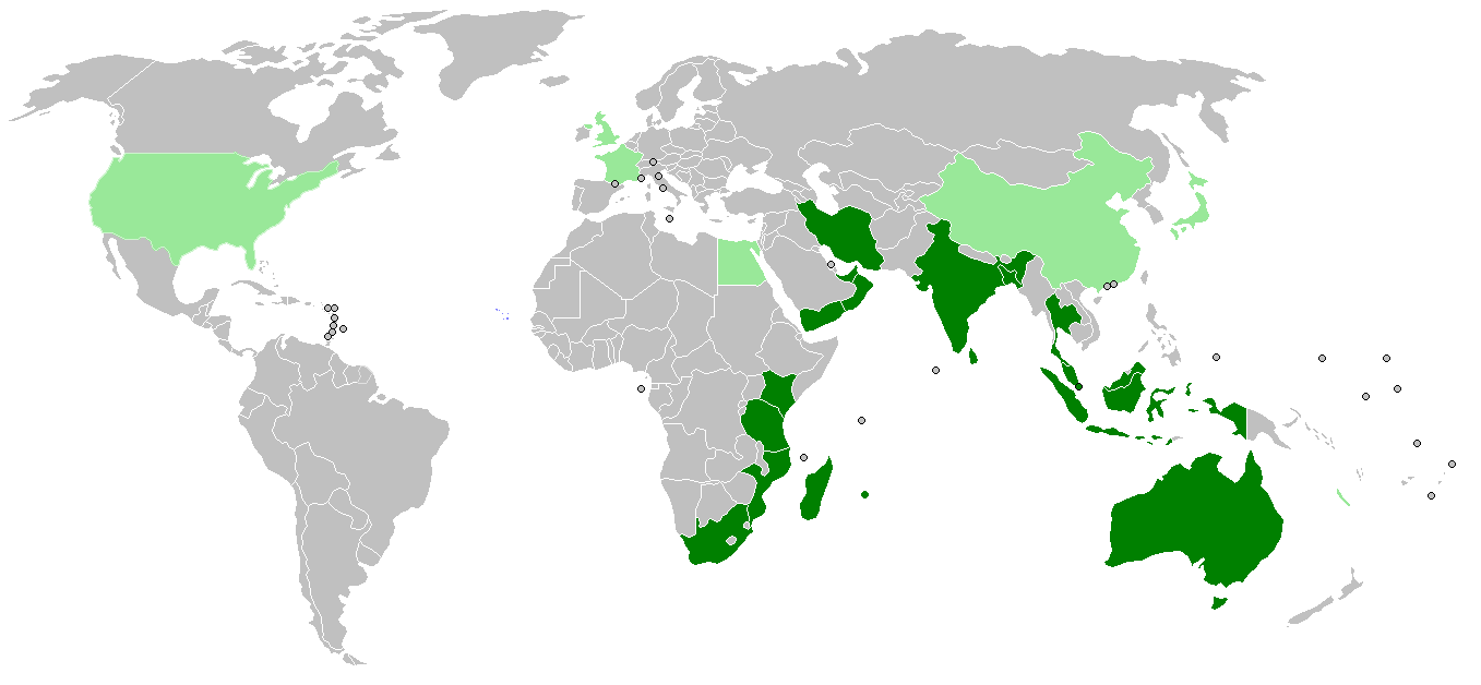 Map for the Indian Ocean Rim Association for Regional Cooperation.